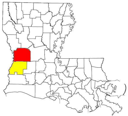 Locator map of the Fort Polk South-De Ridder Combined Statistical Area in the western part of the U.S. state of Louisiana. The two components of the CSA are colored separately: Fort Polk South Micropolitan Statistical Area: red De Ridder Micropolitan Statistical Area: yellow